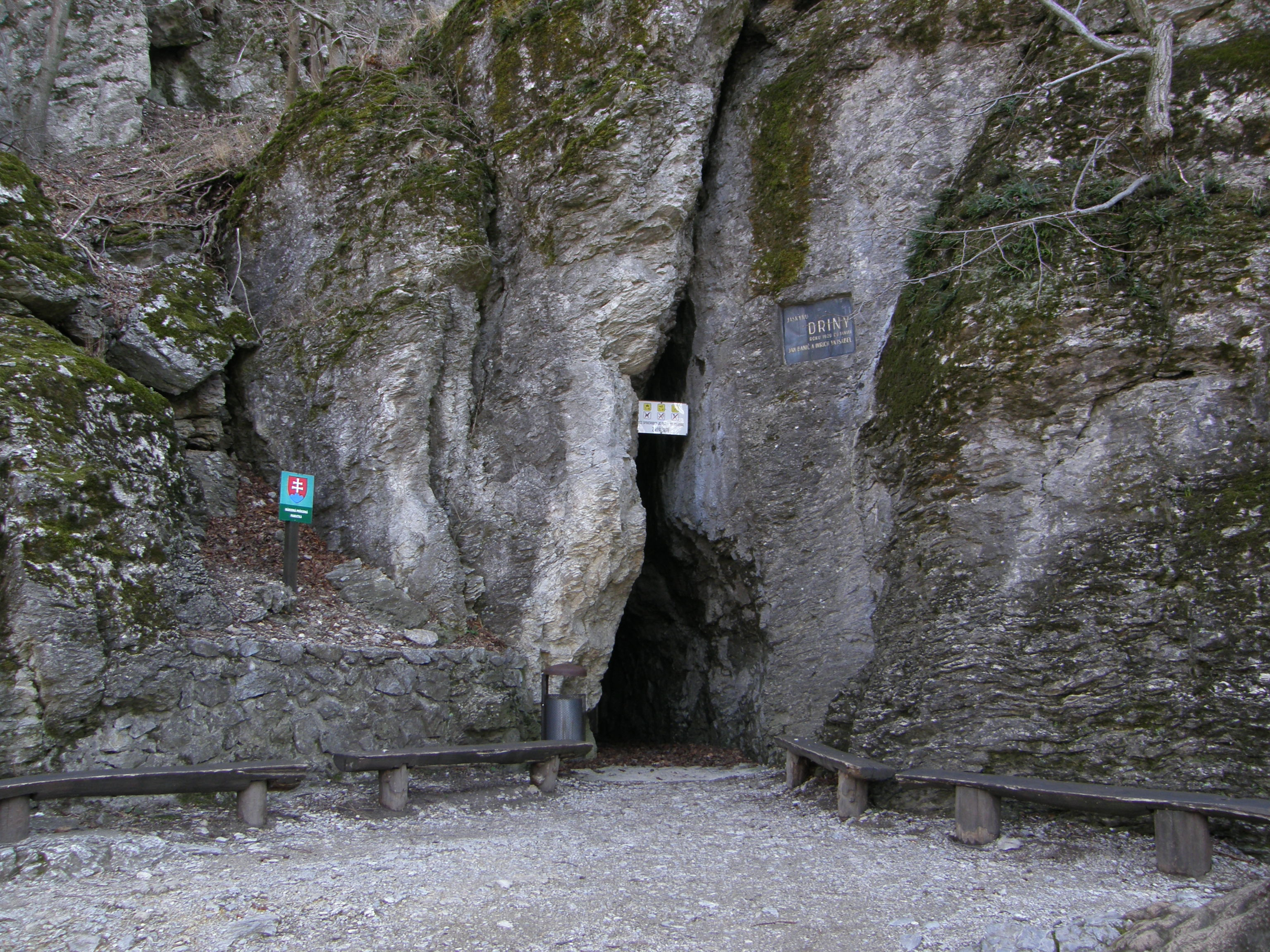 Driny Cave, Slovakia, view of the entrance.